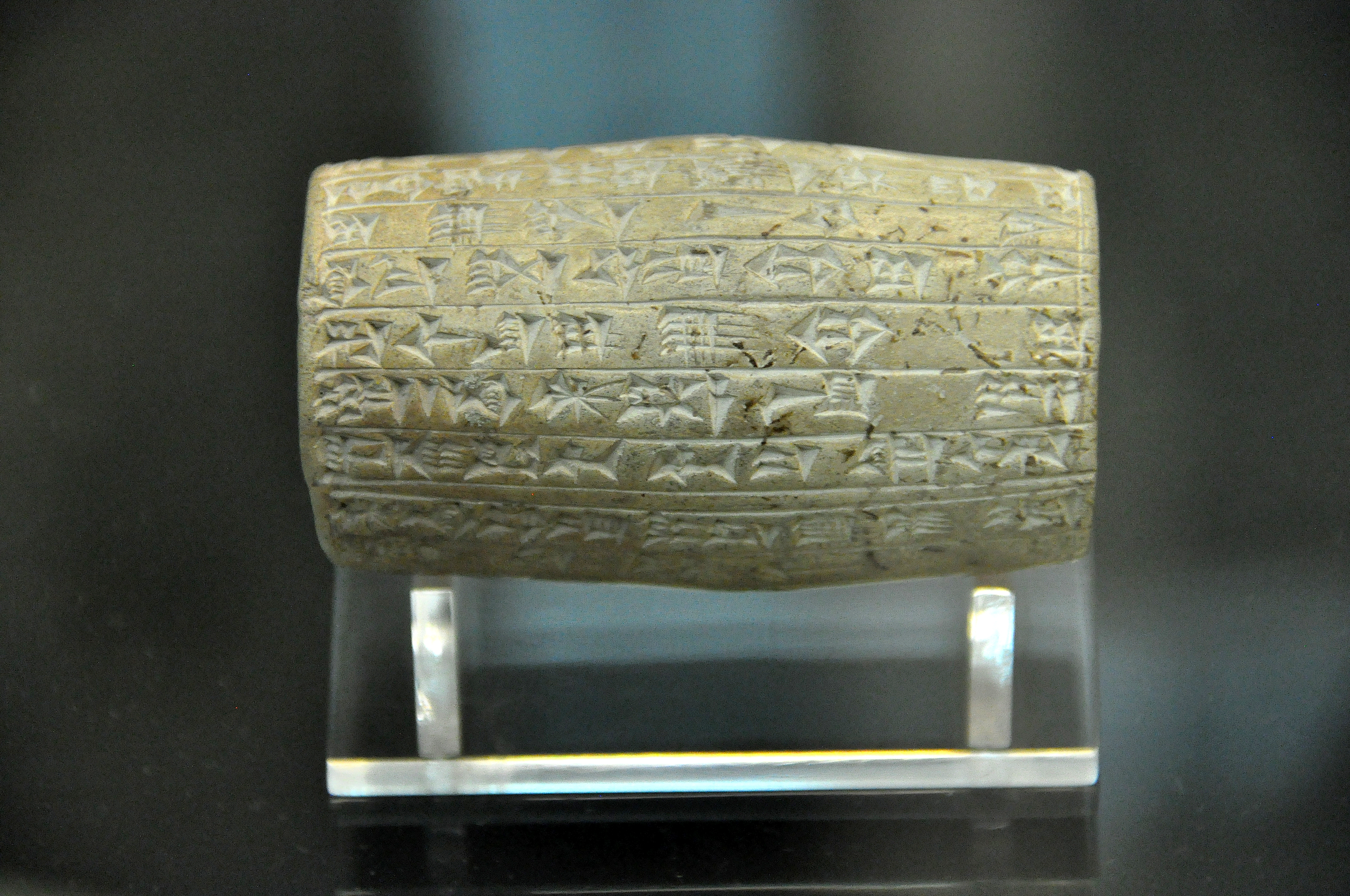 This small terracotta cylinder records the work on the walls of the city of Babylon by the king Nabopolassar. From Babylon, Mesopotamia, Iraq. Neo-Babylonian period, 625-605 BCE. The British Museum, London.